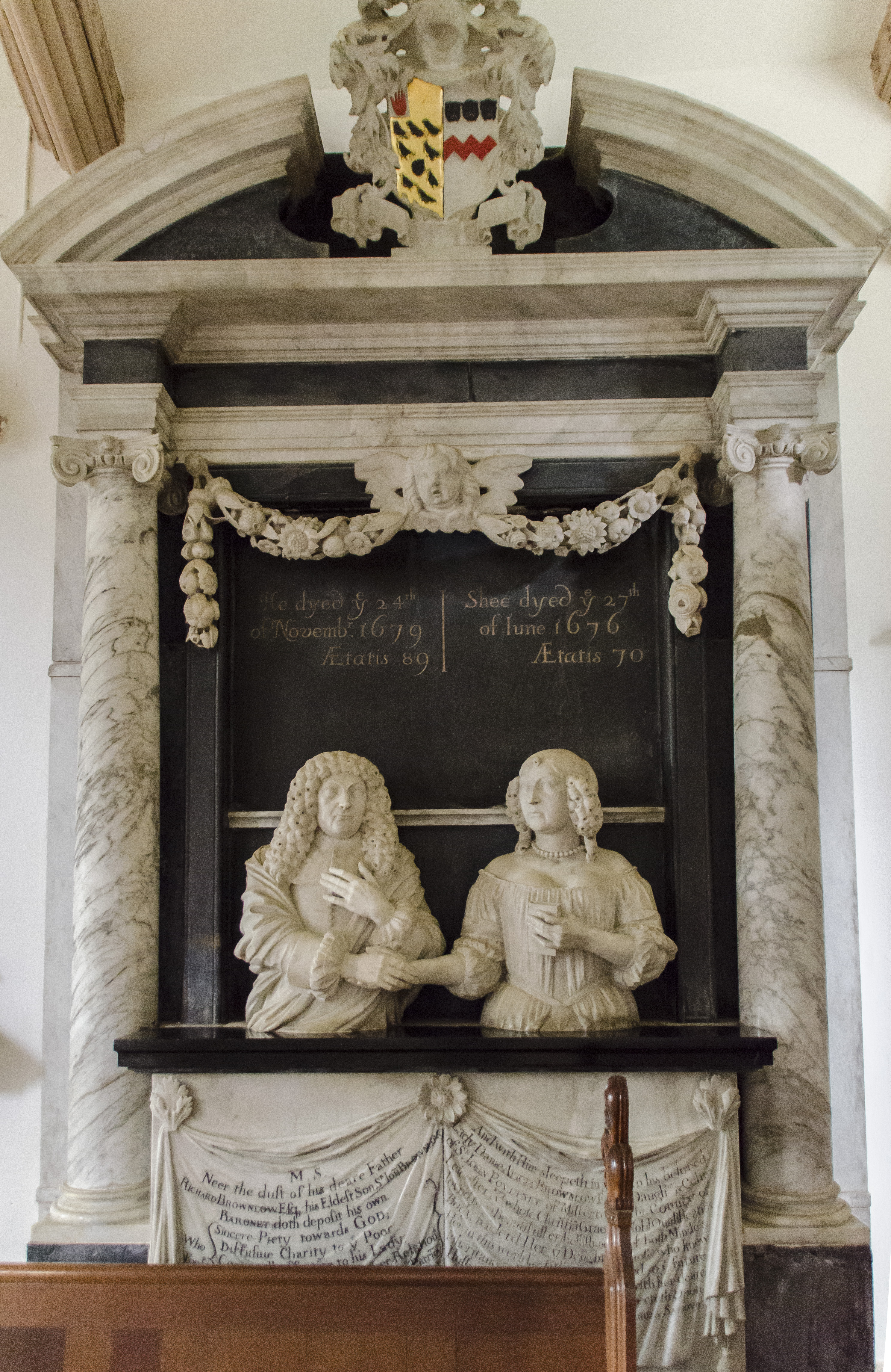 Monument in the parish church of SS Peter and Paul, Belton, Kesteven, Lincolnshire. Made in 1679 by William Stanton for Sir John Brownlow, ast Baronet, who died in 1679 aged 85, and his wife Alicia Poultney, who died in 1676. He was son of Richard Brownlow and his wife Katherine. The Baronetcy expired on his death. Arms of Browlow: Or, an inescutcheon within an orle of eight martlets sable. Arms of Poultney: Argent, a fess dancetée gules in chief three leopard's faces sable